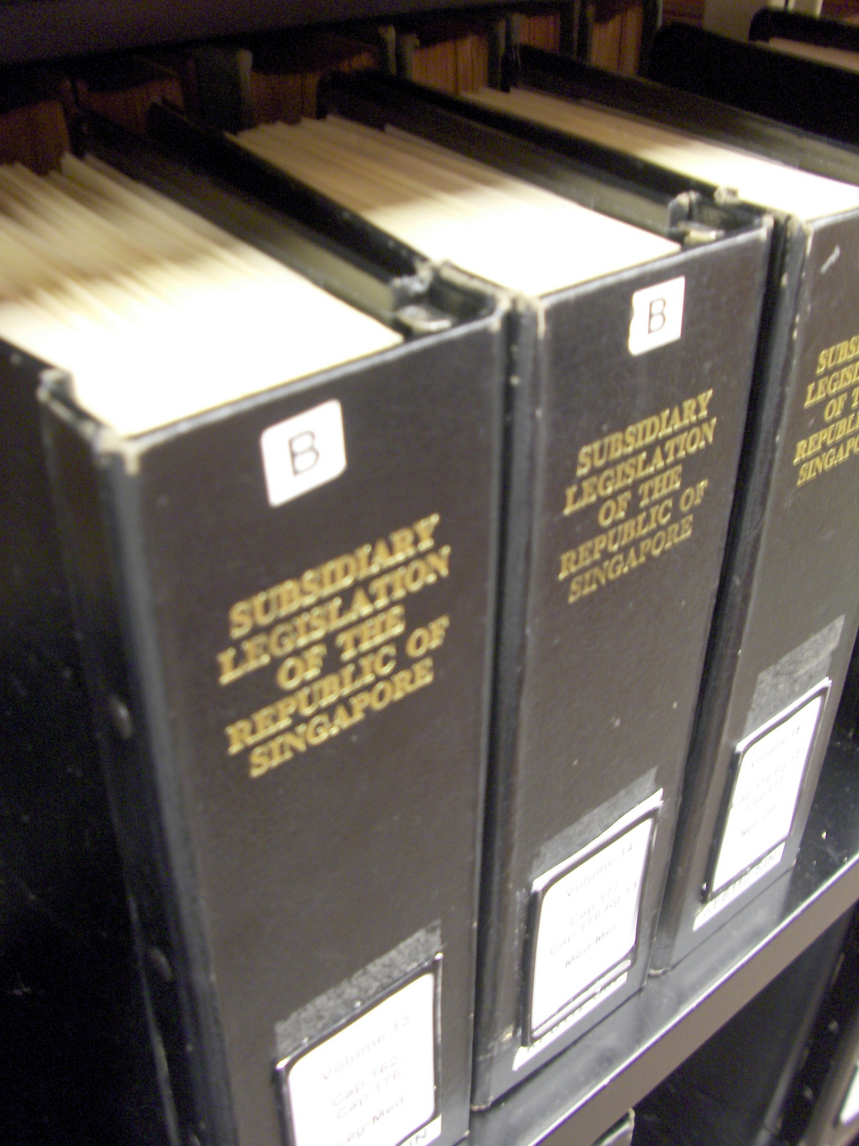 The Subsidiary Legislation of the Republic of Singapore. Rev. ed. 1990–present. Singapore: Law Reform Commission, 1992–. Photographed at the Library of the Supreme Court of Singapore which was formerly in the City Hall Building.